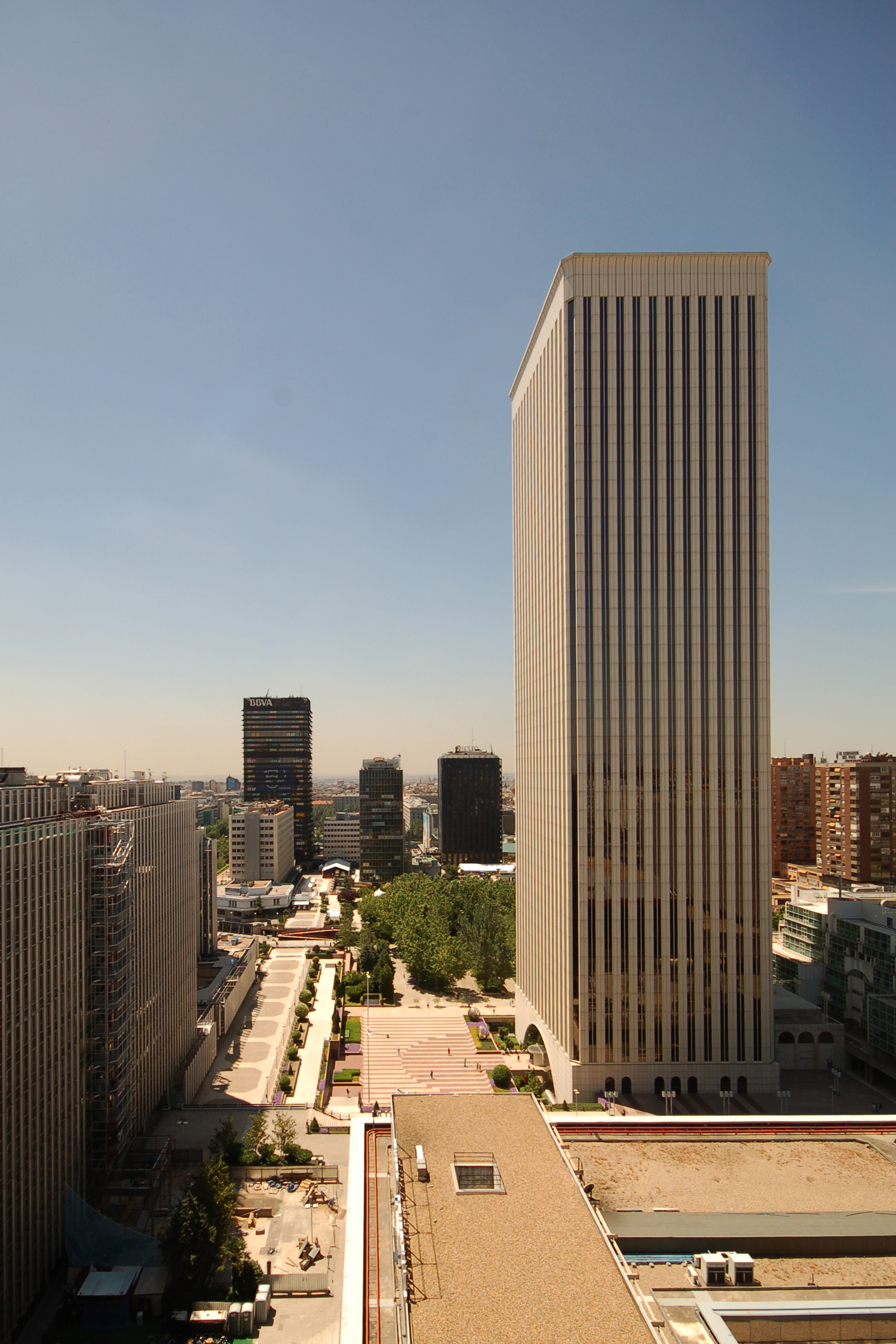 Partial view of AZCA business park in Madrid (Spain) from Edificio Masters 2 (a building). At the right, Torre Picasso (white skyscraper).